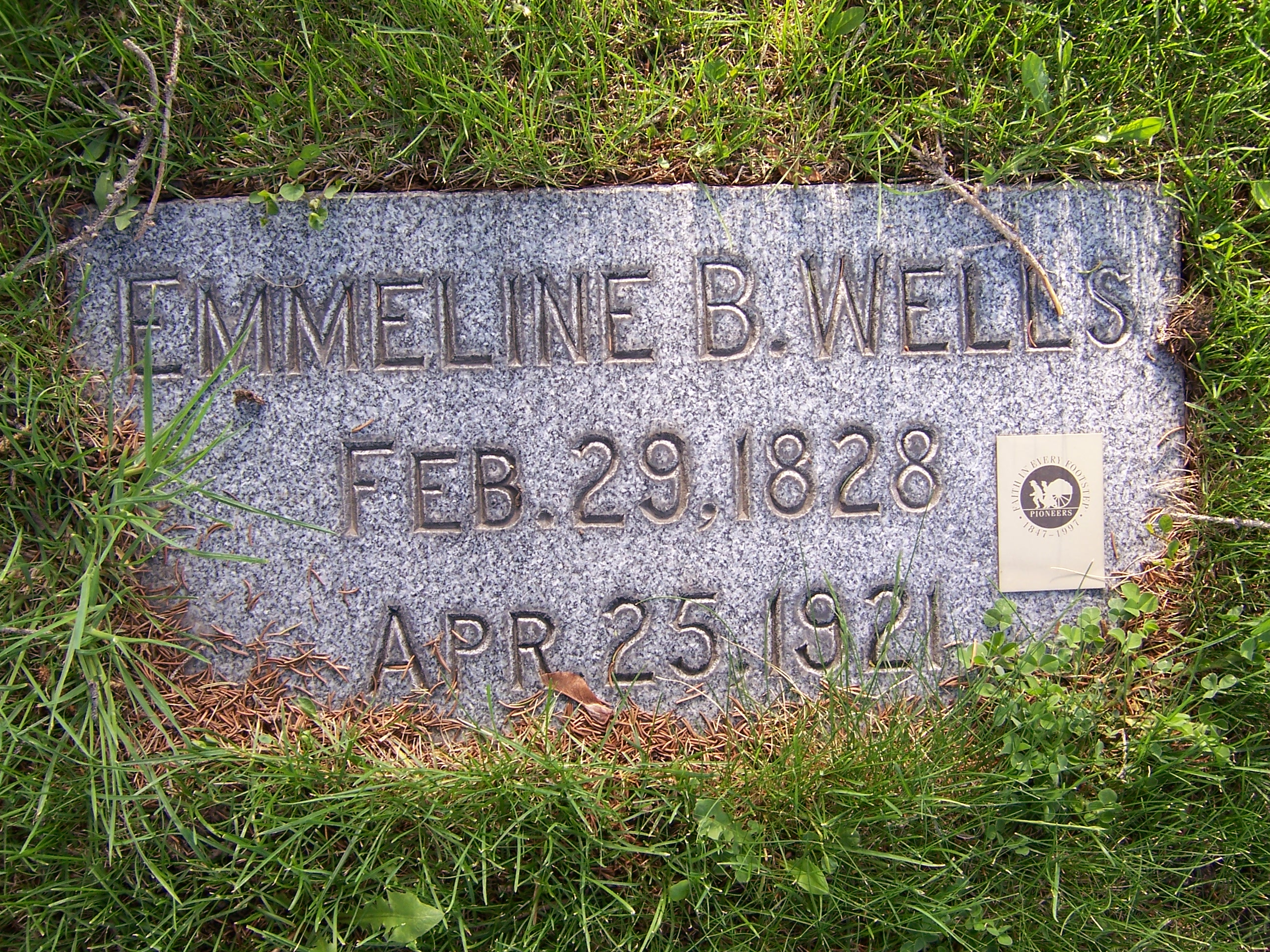 Emmeline Blanche Woodward Harris Whitney Wells' Grave Marker